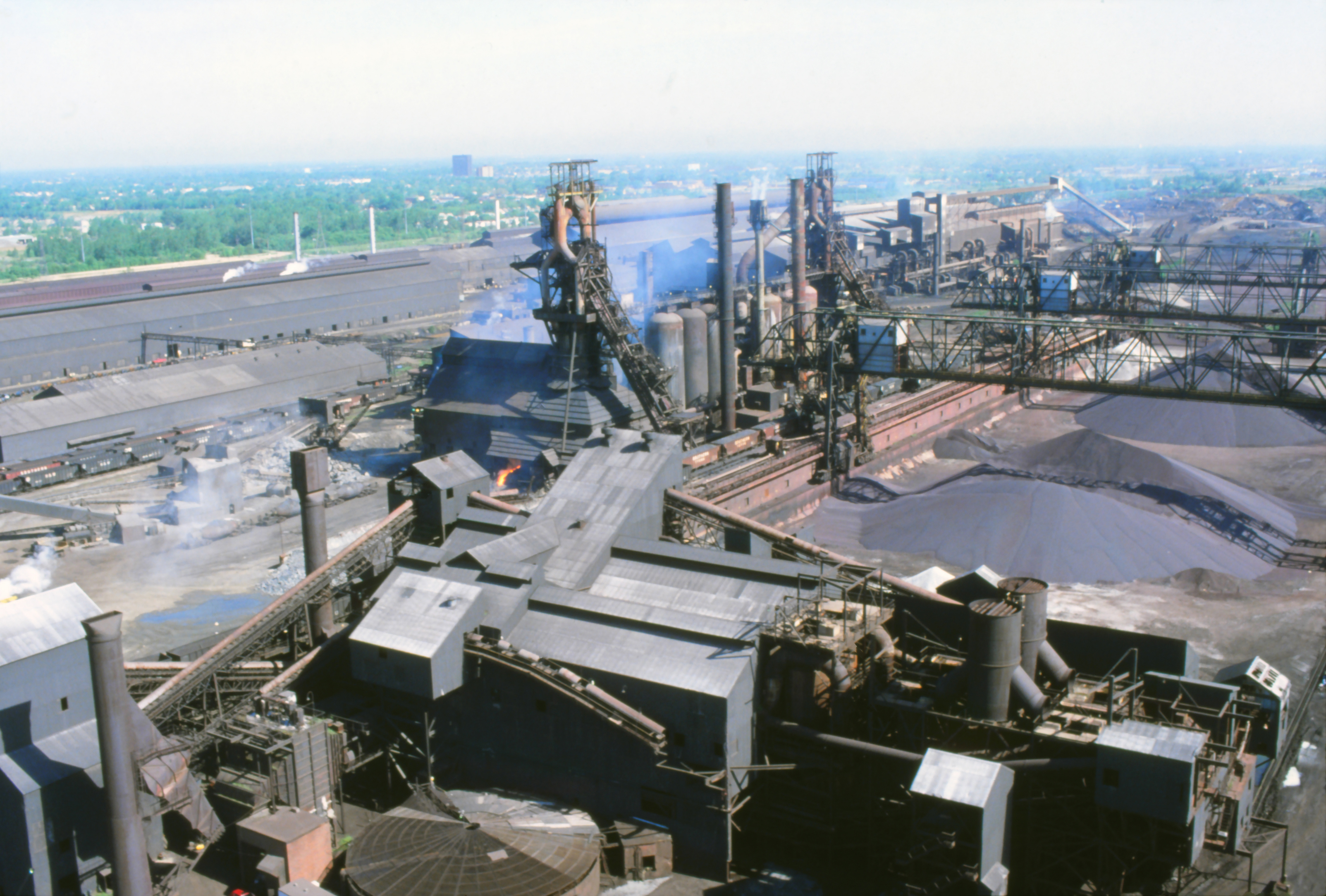 Photograph showing the McLouth Steel Company's Trenton Complex in the early 1990's.